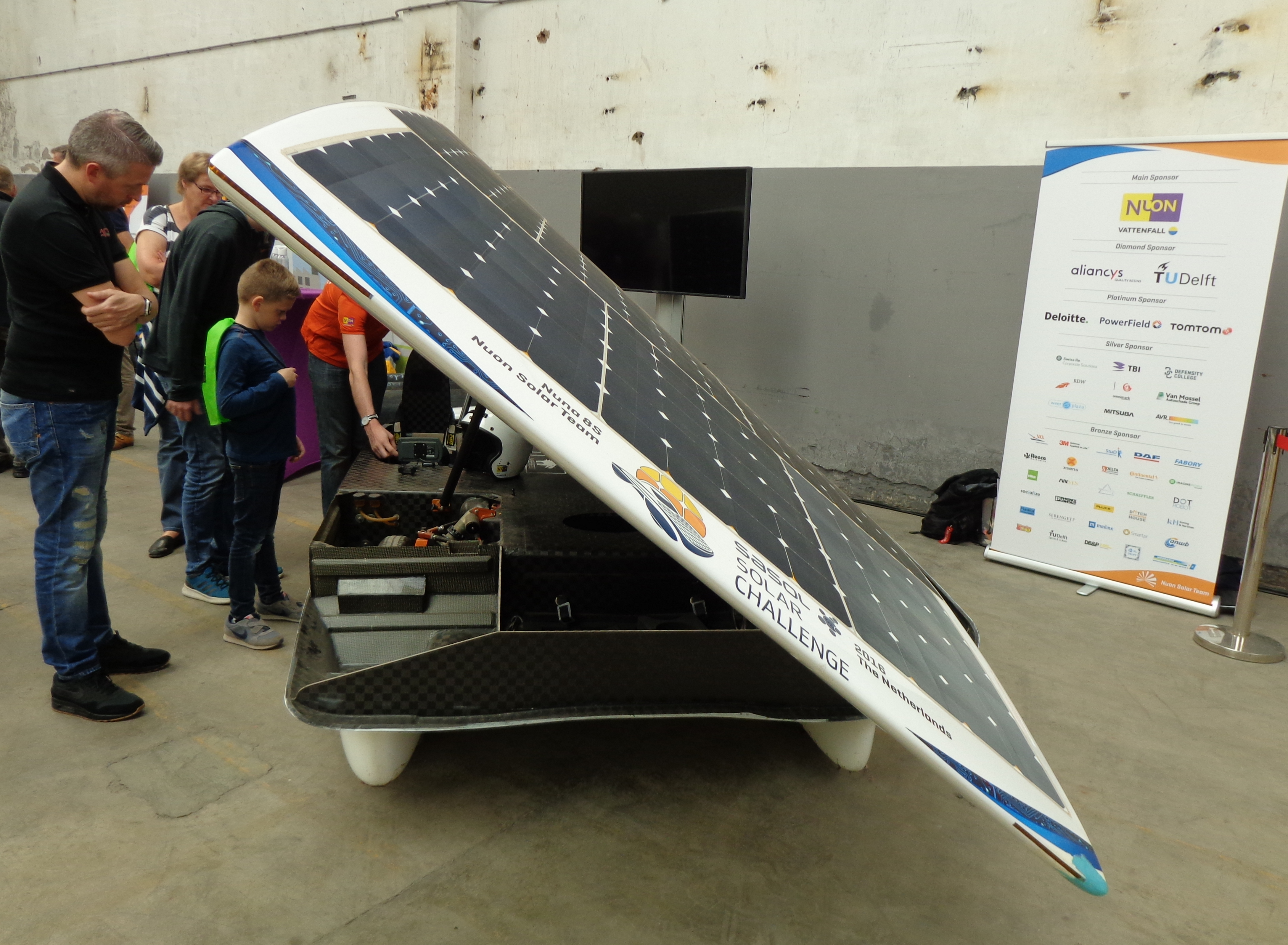 Nuna 8 solar-powered racing car